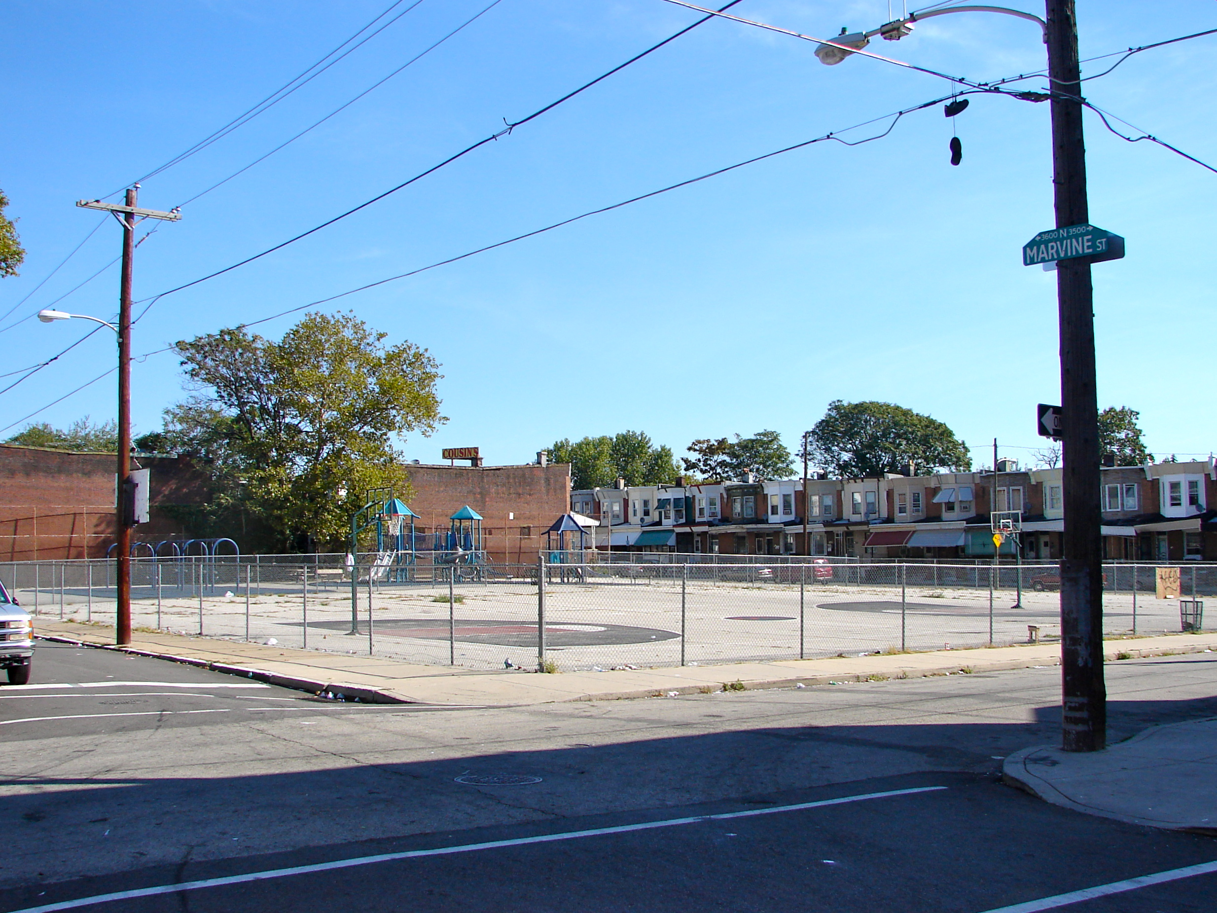 Site of the Richardson L. Wright School of Philadelphia on the NRHP since December 4, 1986. At 1101 Venango St. between Marvine and 11th. This photo looks from corner of Venango and Marvine toward 11th. Obviously the school has been torn dow. There seems to be a Richard Wright School in Philly, but it is modern and without the "son" In the Nicetown–Tioga neighborhood of North Philly